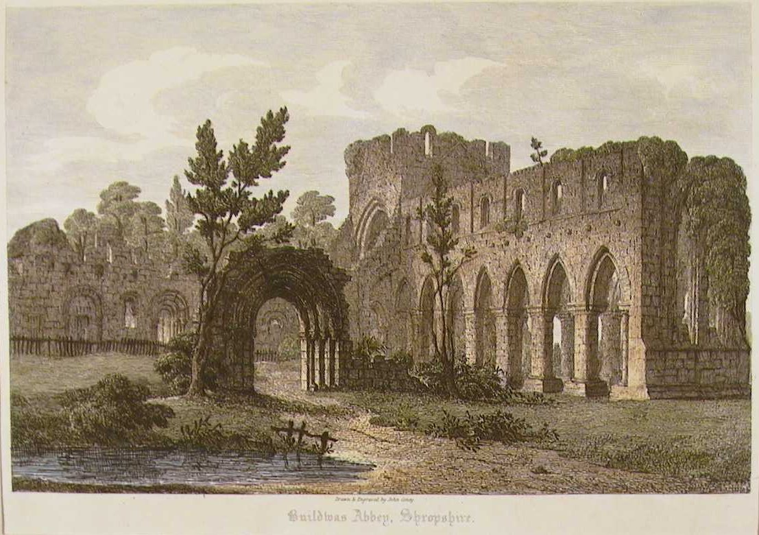 Buildwas Abbey, Shropshire, by John Coney